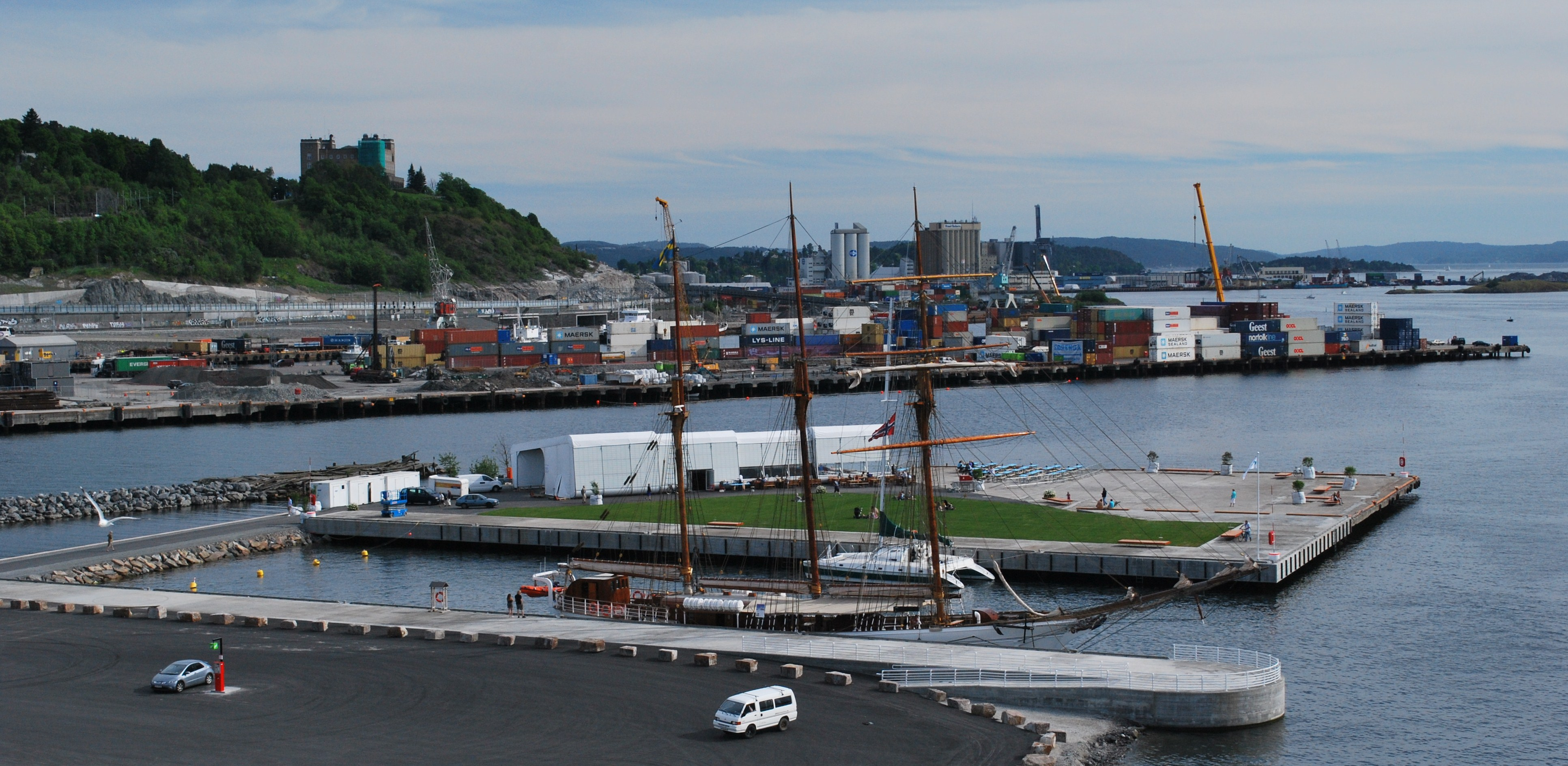 Little island "Snelda" / "Sukkerbiten", Bjørvikautstikkeren, Bjørvika, Oslo